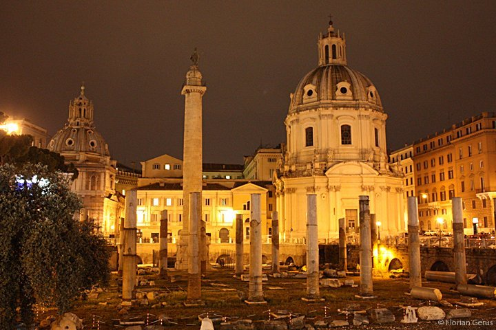 The Trajan Forum at night